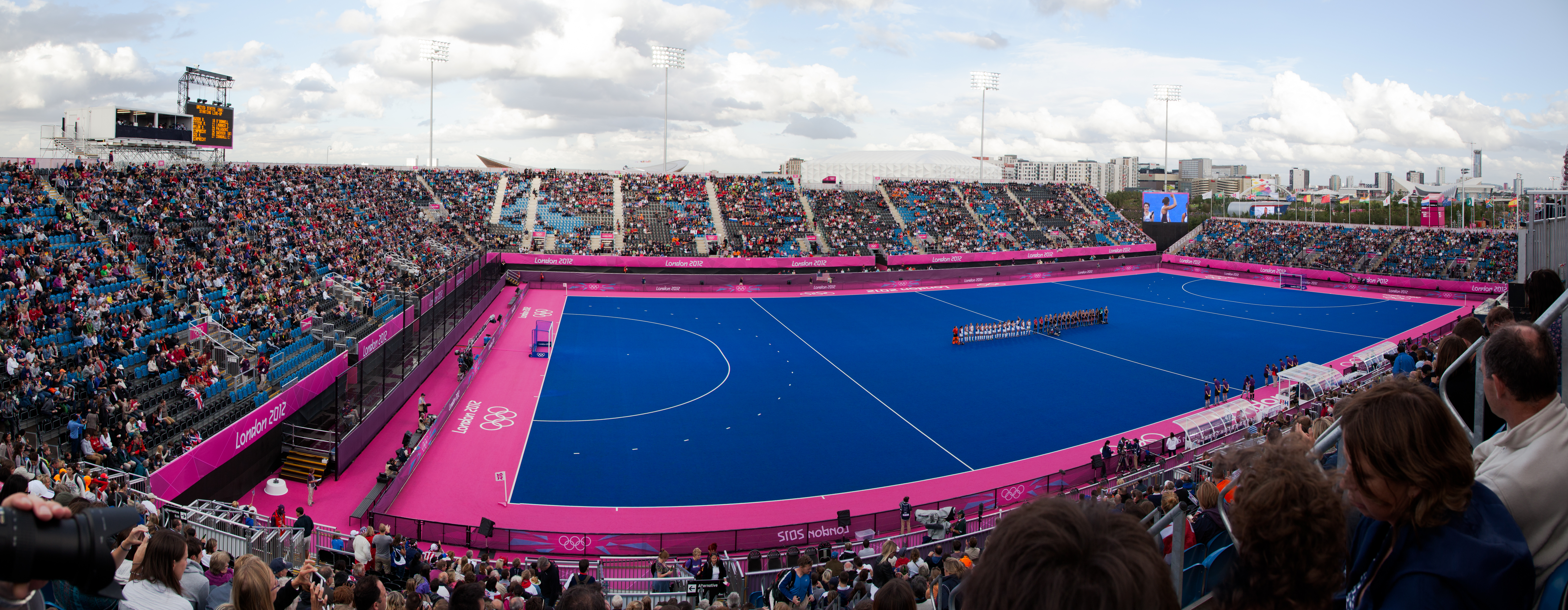 Field hockey at the 2012 Summer Olympics - United States vs New Zealand